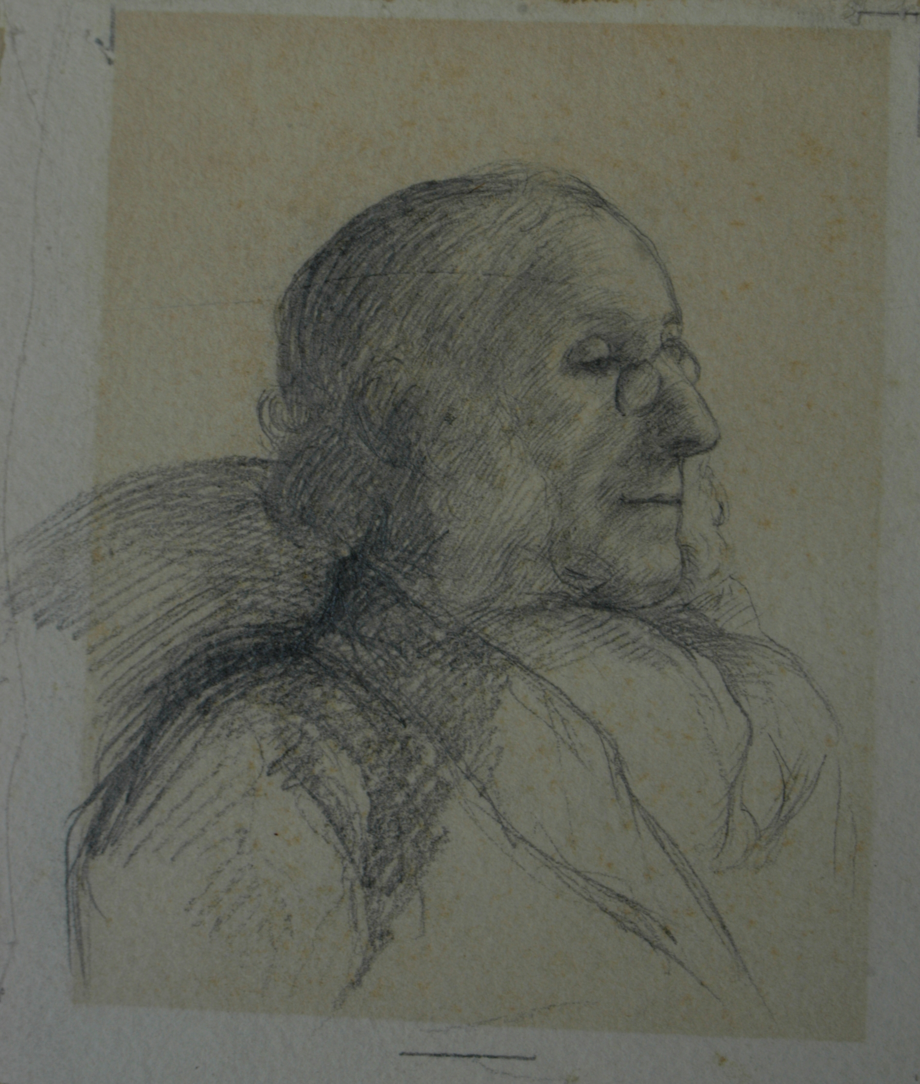 Photo (by me, R. de Salis, Rodolph (talk) 19:01, 18 August 2015 (UTC)) of a pencil sketch of William Fane de Salis (died 1896). Other information (sitter lived 1812-1896, so assess age of sitter plus 1812)